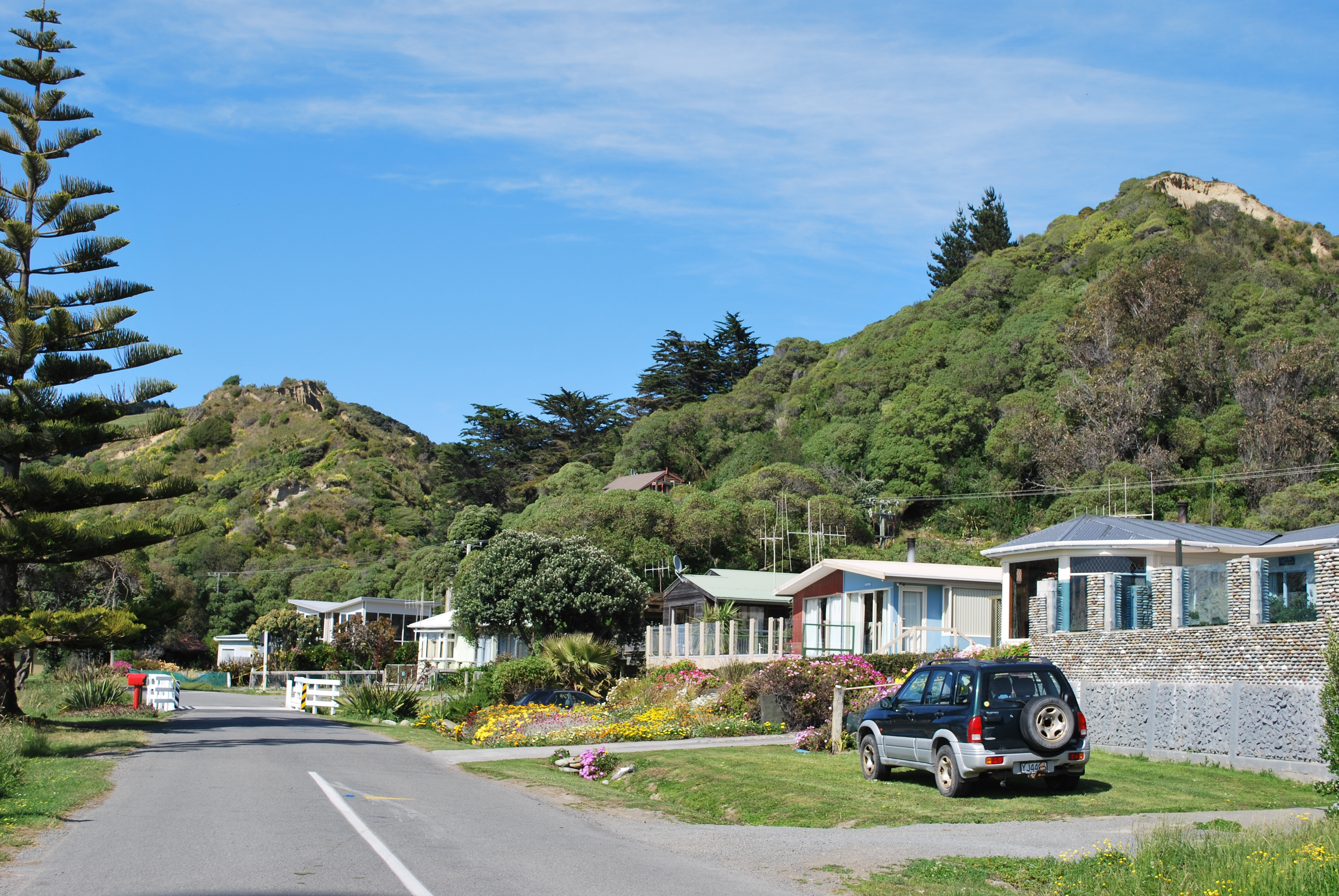 Houses or "baches" at Gore Bay, New Zealand